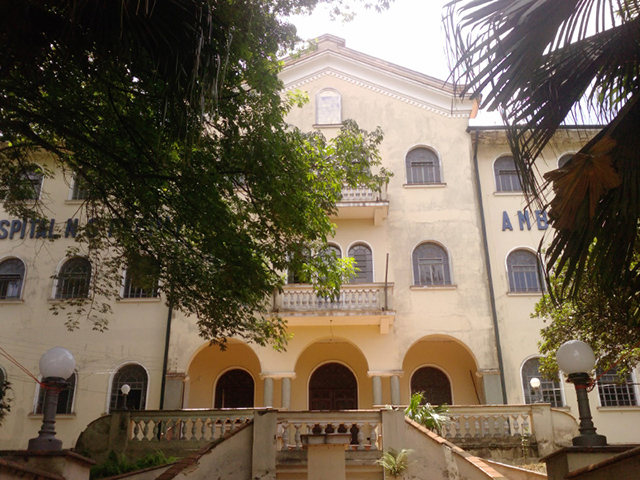 Orsay